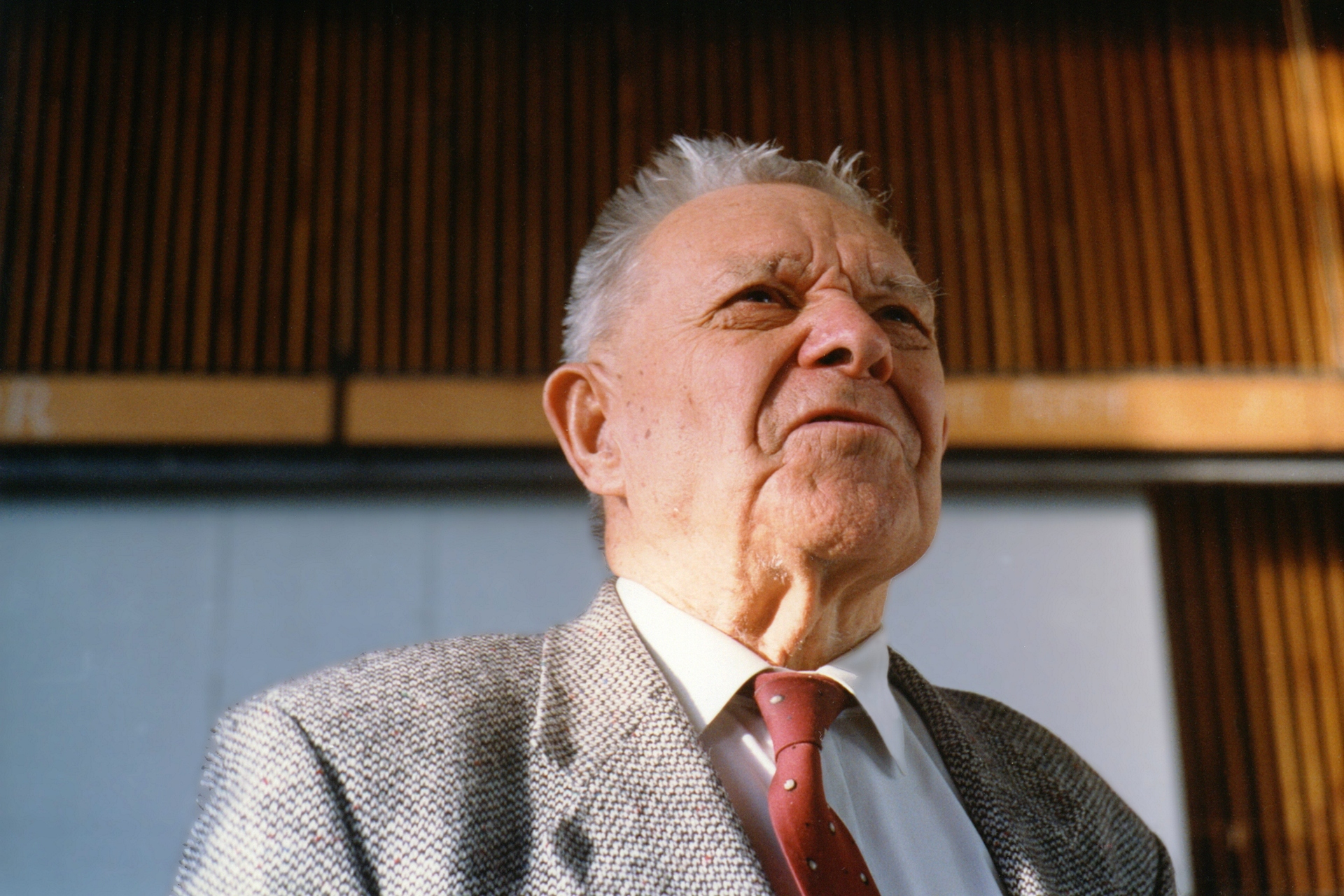 Sergey Nikolsky delivers one of his last lectures on mathematical analysis for 4th term students of MIPT. Spring 1997, Moscow Institute of Physics and Technology, auditorium 202NK.